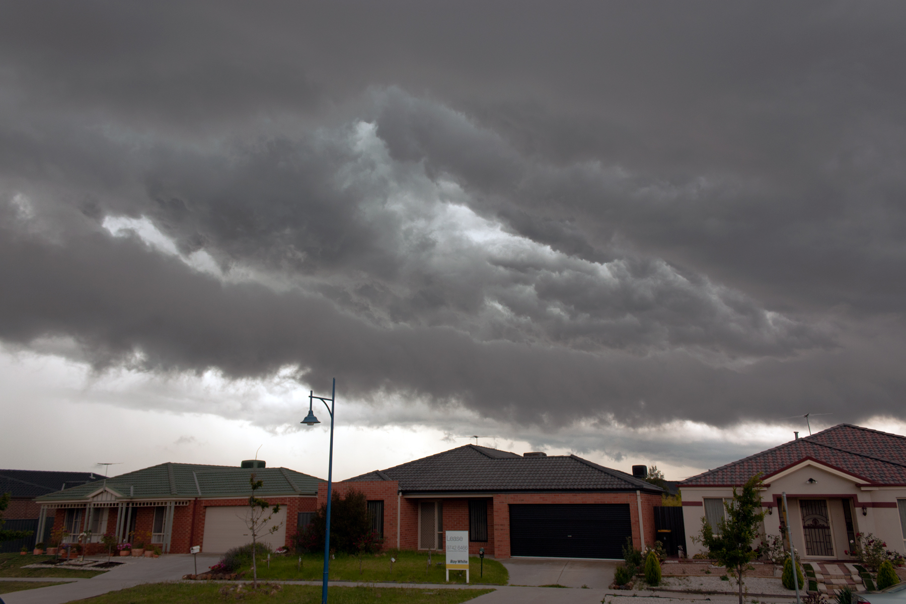 Stormy weather over Narre Warren